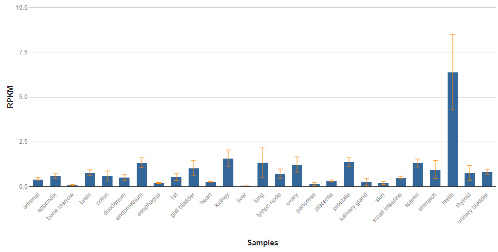 Tissues